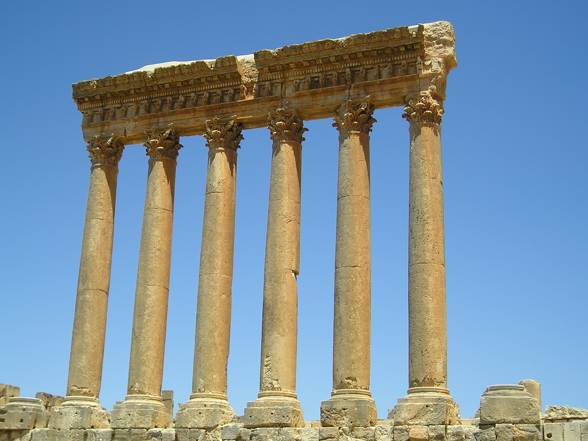 Baalbek, Lebanon - remaining 6 columns of the Temple of Jupiter